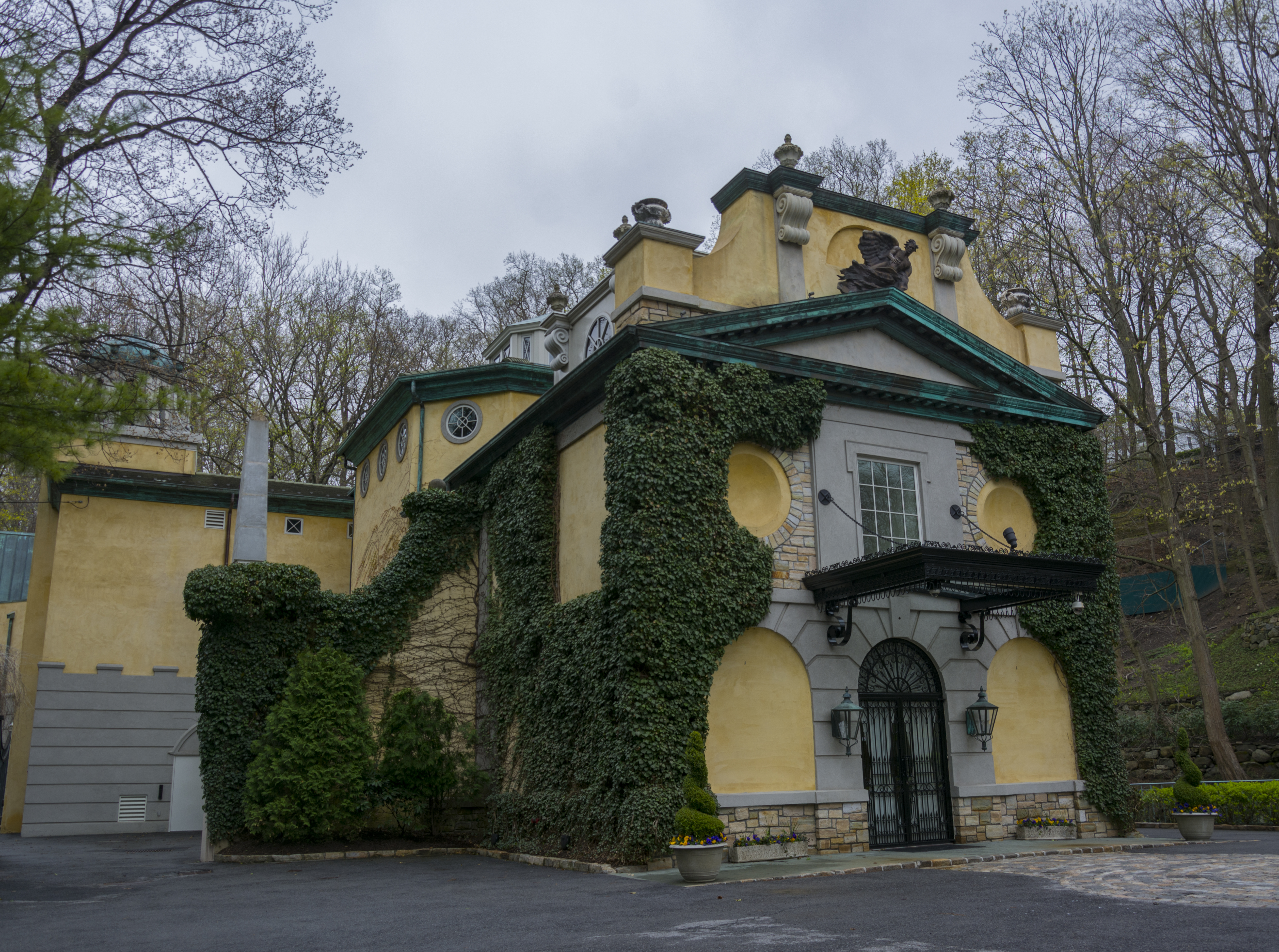 The Newington-Cropsey Foundation's Gallery of Art Building. I took many more photos here, contact me on my talk page or email if you would like more.